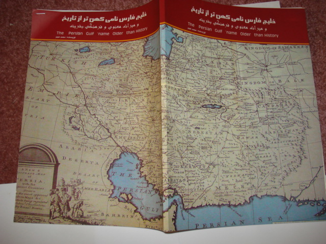 old names of Iran